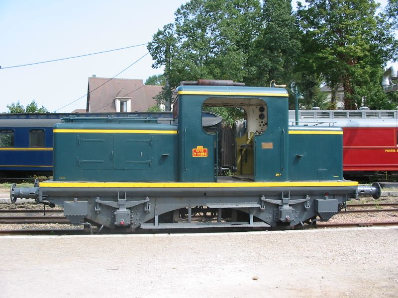 The french shunter Y 11251 preserved on the CFVE, Pacy sur Eure